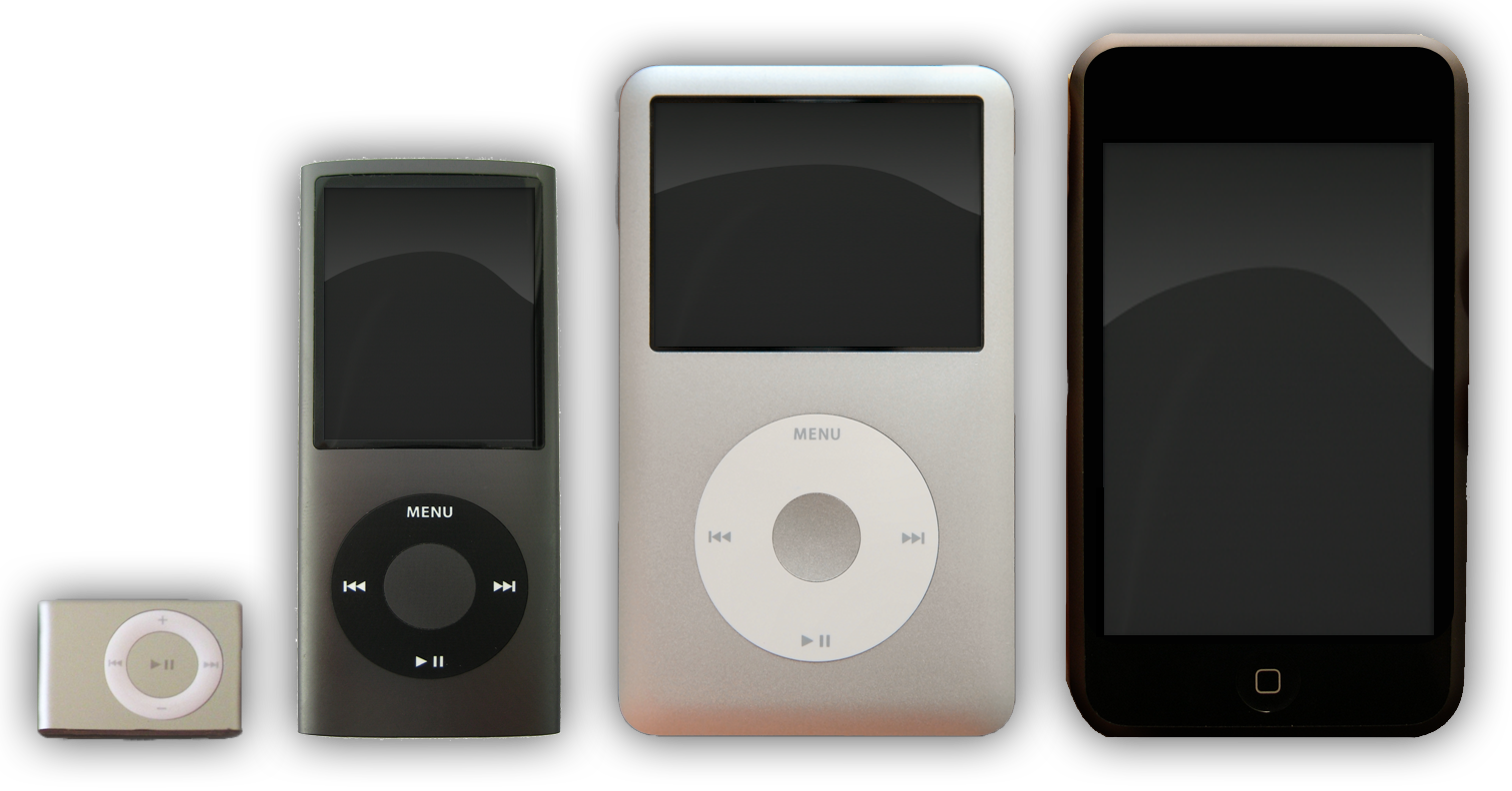 These are the current models of the iPods from Apple, Inc. The first one is a silver iPod shuffle, the second one is a black iPod nano, the third one is a silver iPod classic and the last one is a black iPod touch.